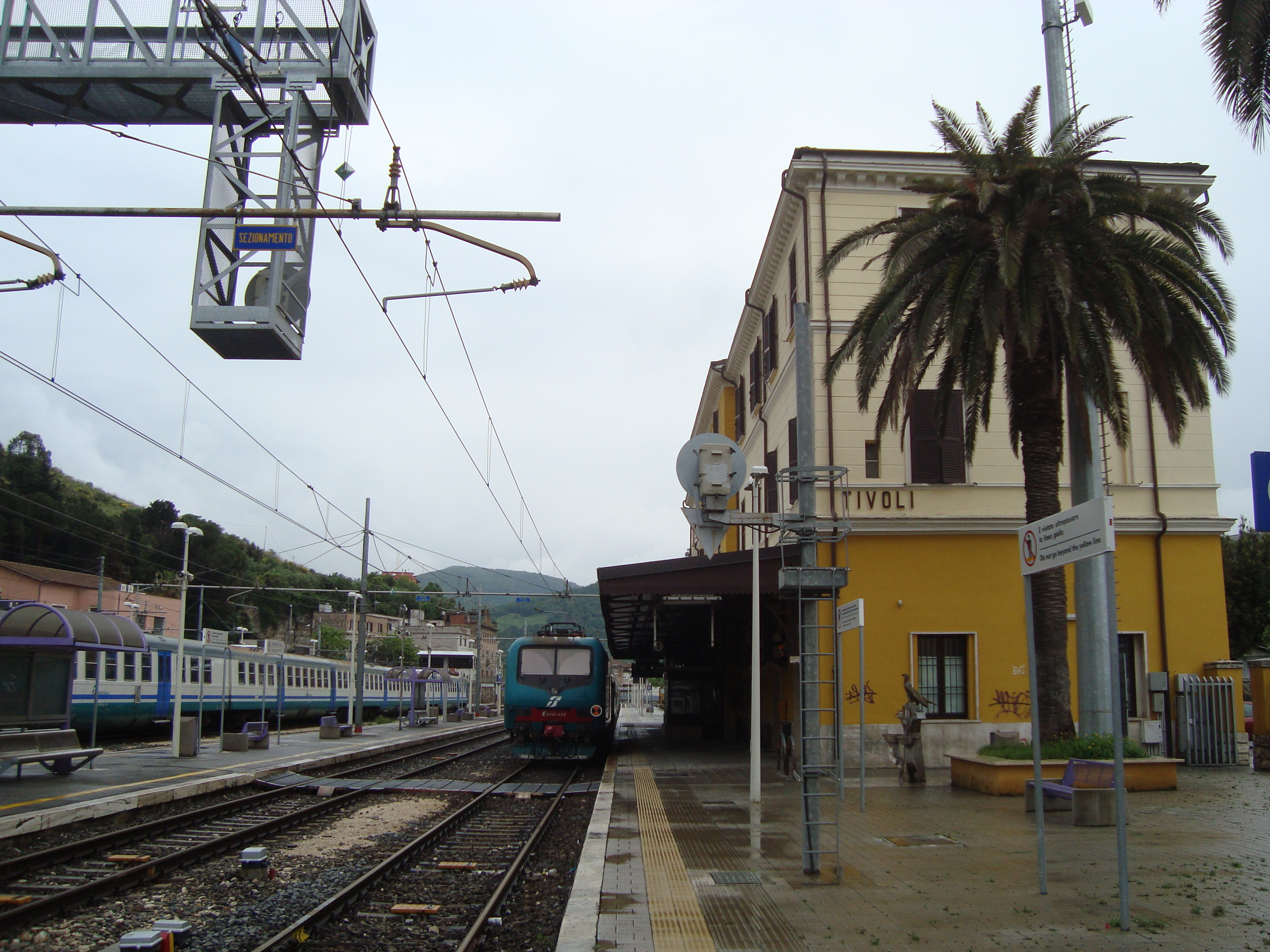 The Tivoli's main railroad station